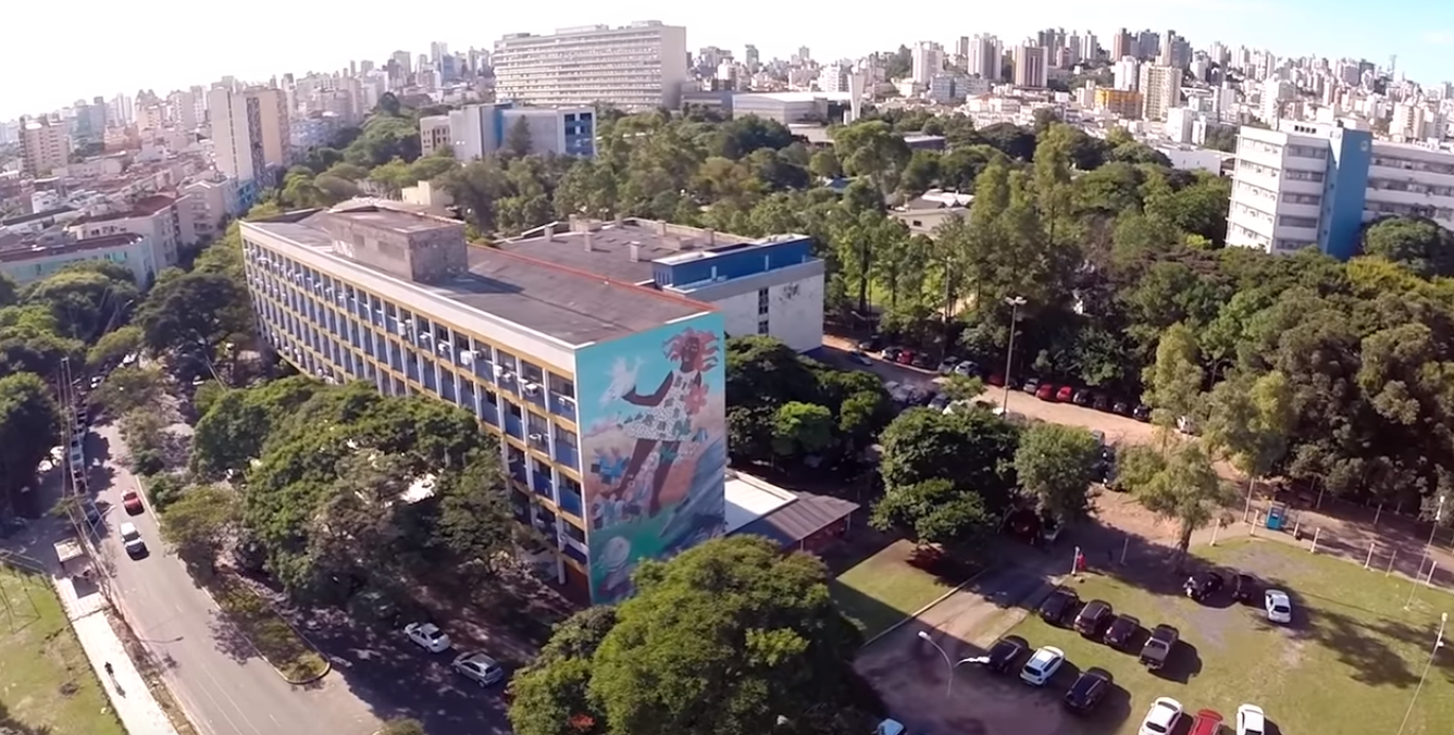 Vista aérea Campus Saúde